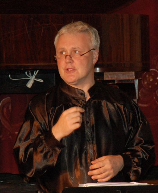 Thomas Caplin in concert, Tolga, May 2010